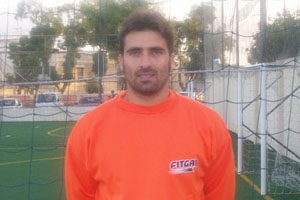 Picture of Saviour Darmanin